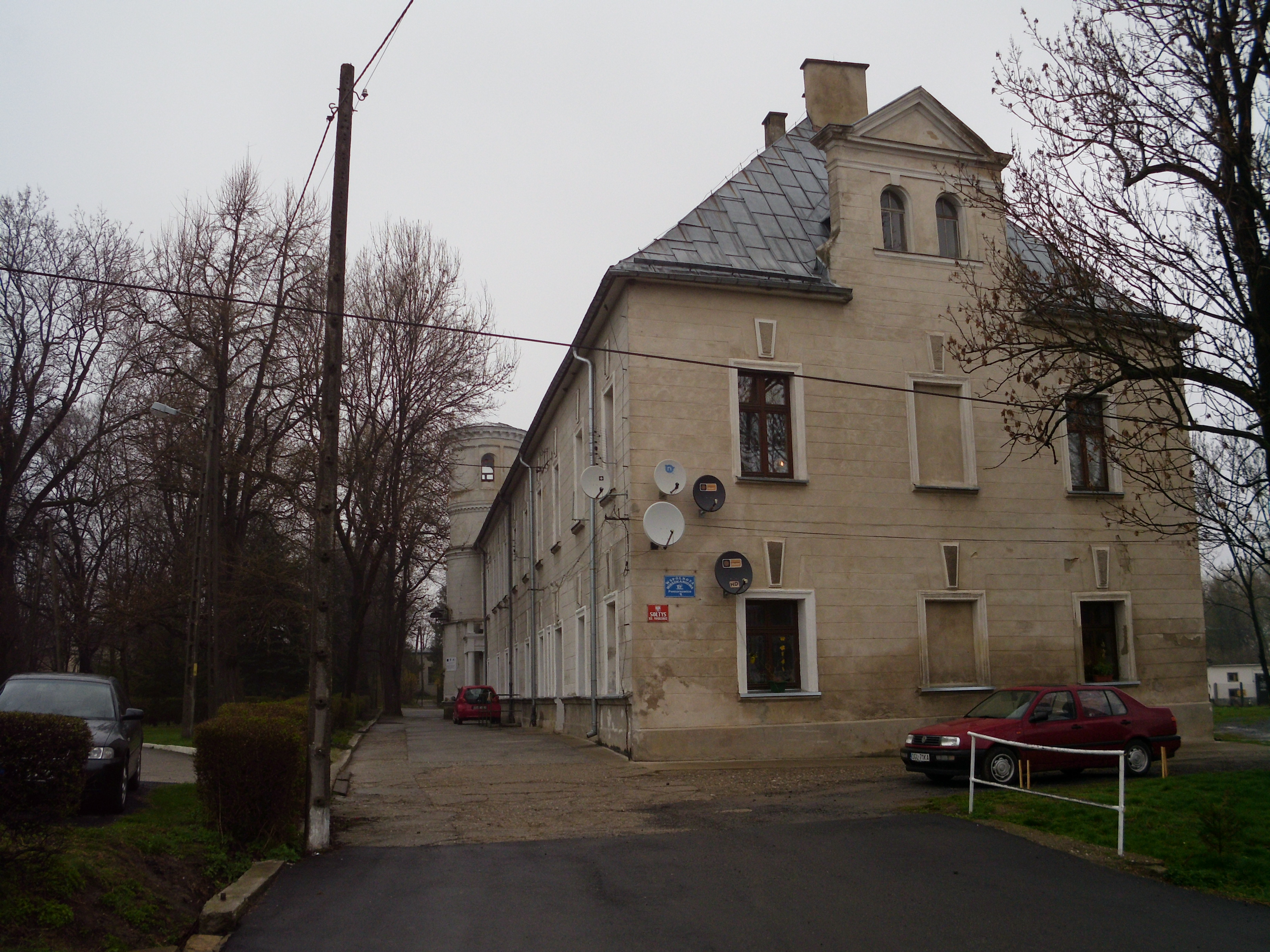 Former palace in Pomorzowice, Poland. It is now used as residential house and mayor´s office.